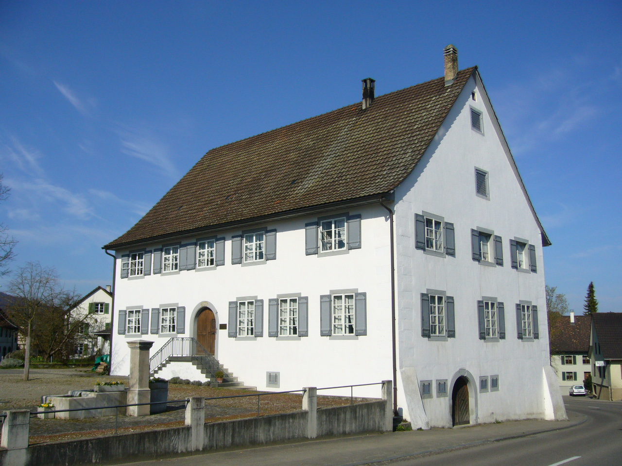 House Wasen in Wagenhausen, village in the canton of Thurgau, Switzerland. Pictrue taken by Peter Berger. April 7, 2007.